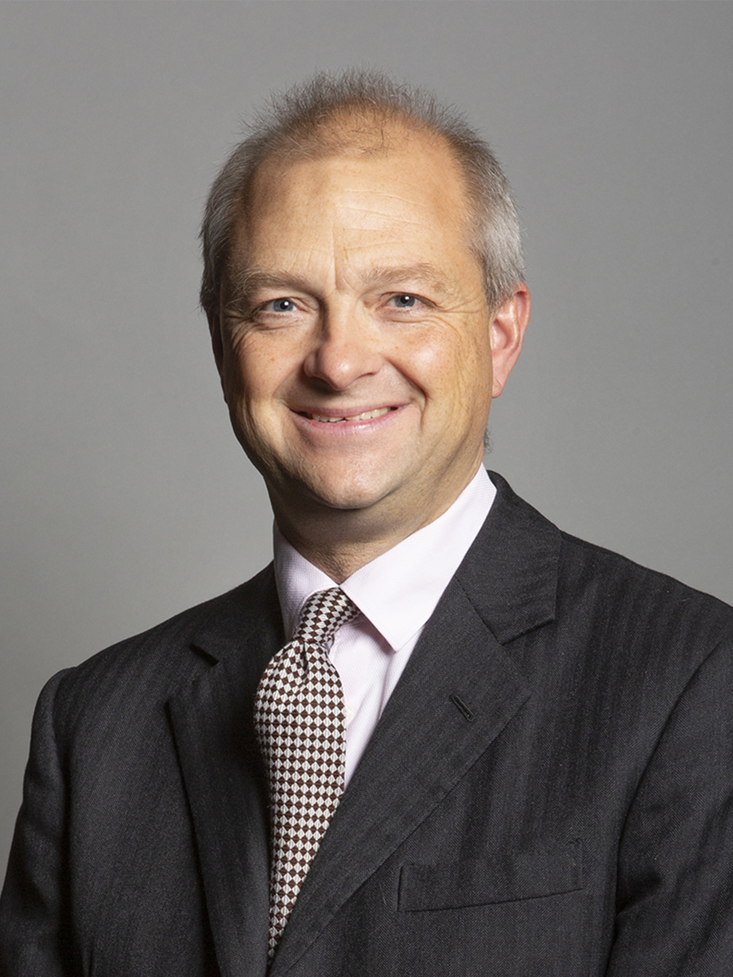 Official portrait of Jerome Mayhew MP 3×4 portrait of Jerome Mayhew